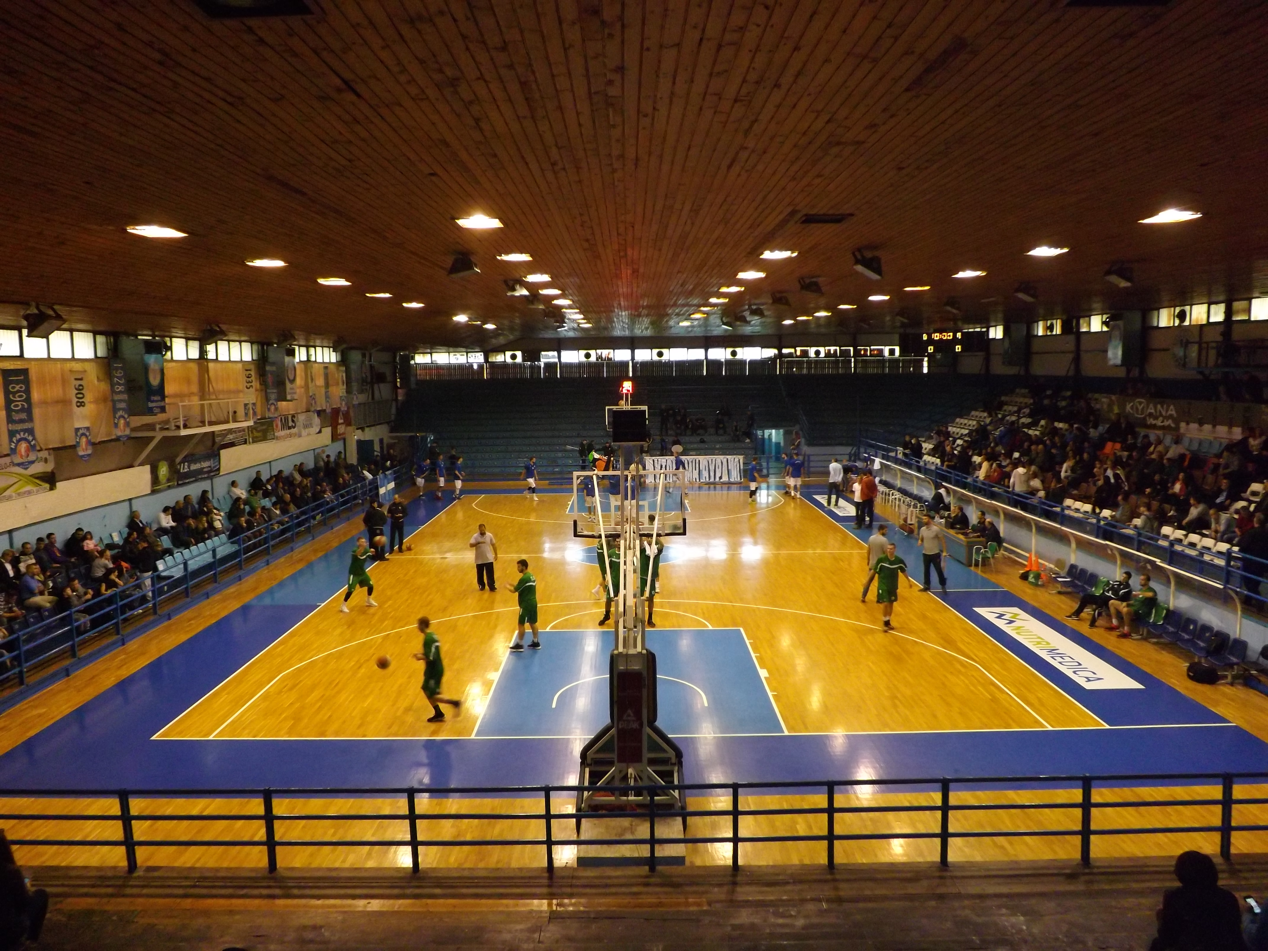 The interior of Ivanofio Indoor Arena.